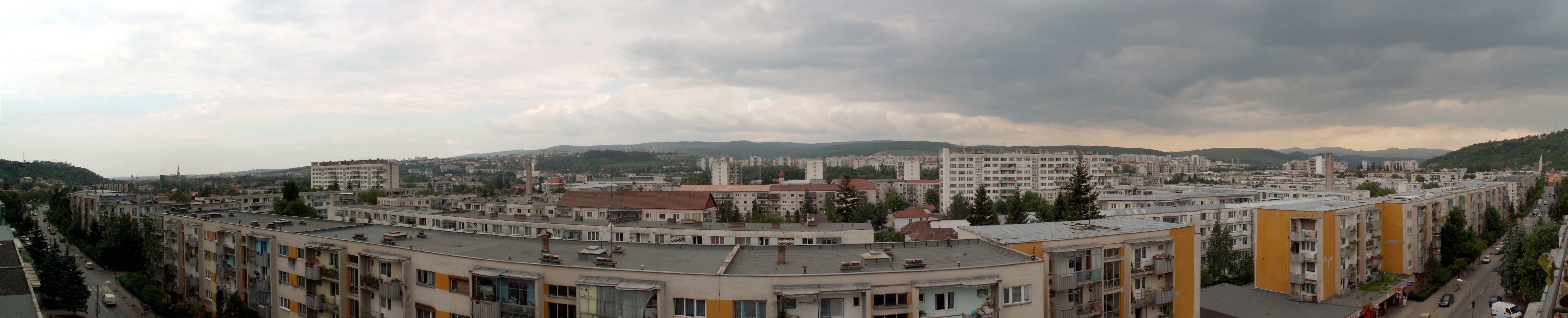 Panorama of Donát/Grigorescu neighborhood in the city of Cluj-Napoca, Romania